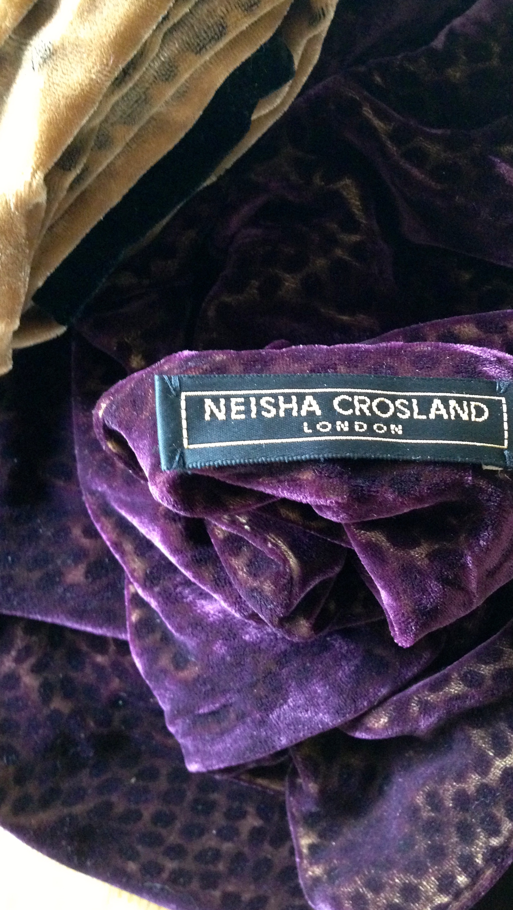 Velvet scarves were a key fashion trend in the 1990s in the UK, with designers such as Georgina von Etzdorf and Neisha Crosland experimenting with print and other techniques on velvet. These examples, from c1997 were bought from a sample sale in Soho, London, UK. Velvet scarves were worn as part of day as well as evening wear and designer versions in expensive silk velvet were quickly replicated using cheaper materials by many high street stores. Other information Relevant to fashion and textile design projects